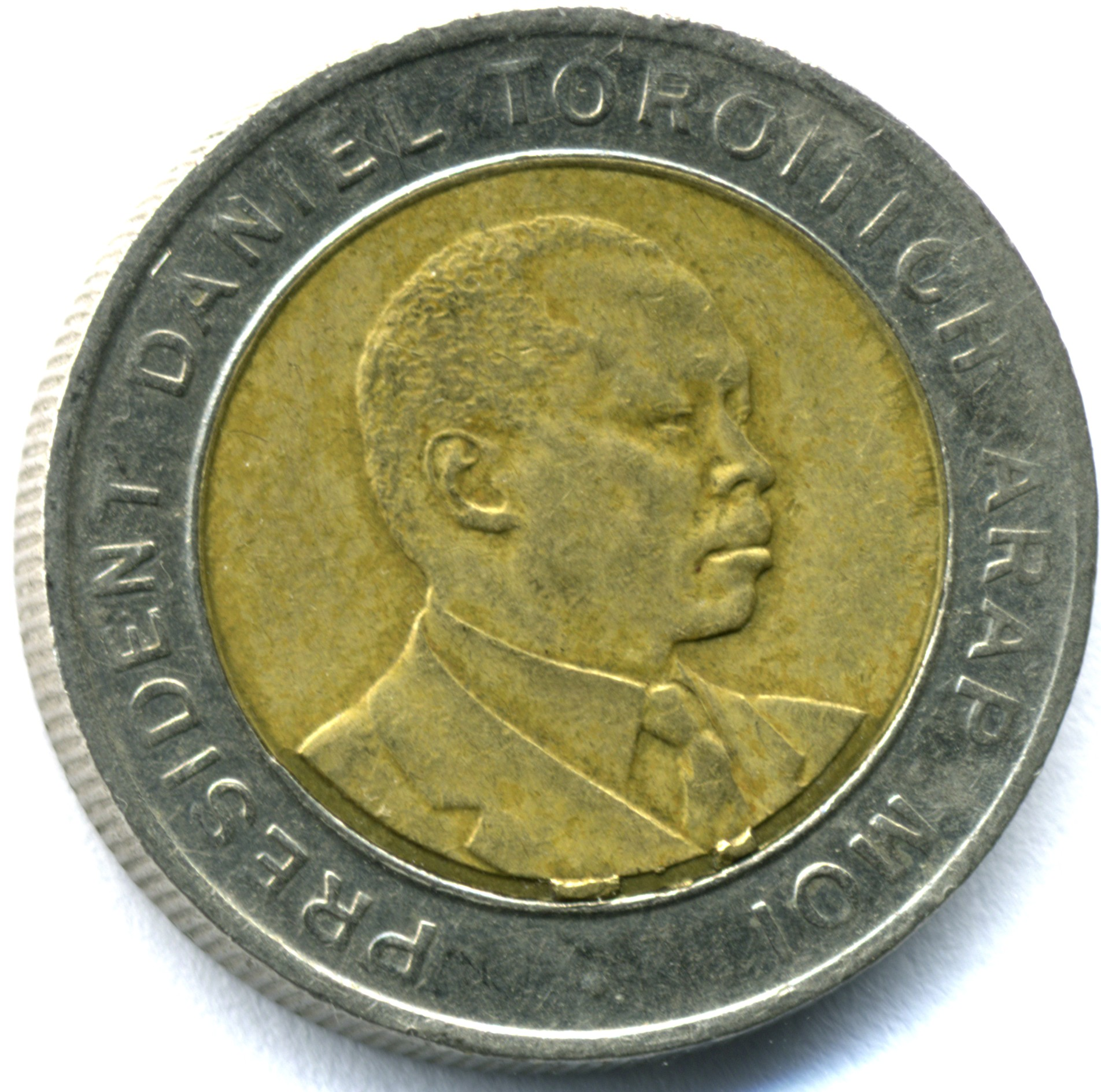 Kenya five shilling bimetallic coin